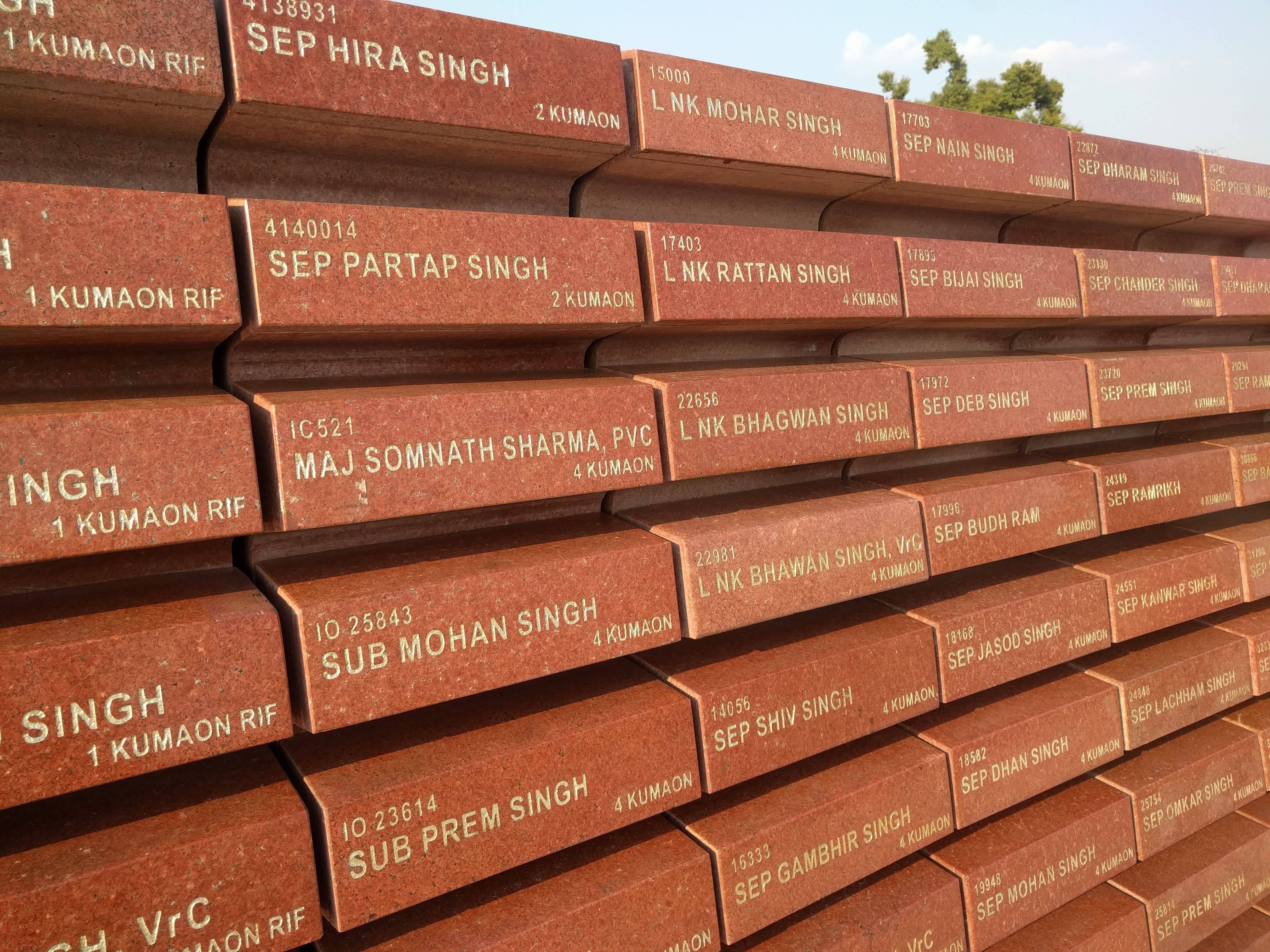 National War Memorial, Tyag Chakra, Circle of Sacrifice. Among the names visible is that of Major Somnath Sharma, PVC.